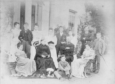 Passmore family at Grilstone, in the parish of Bishop's Nympton, Devon, 1894 photograph, collection of South Molton Museum, ref:2095. Caption: "The Passmores at Grilstone Farm. Sam Passmore 2nd from right. Mid to late 19th century. Father Edmund Passmore, mother Lydia Passmore, ne Jutsum. Bertha Passmore, mother of Lord Widgery, front row first right".